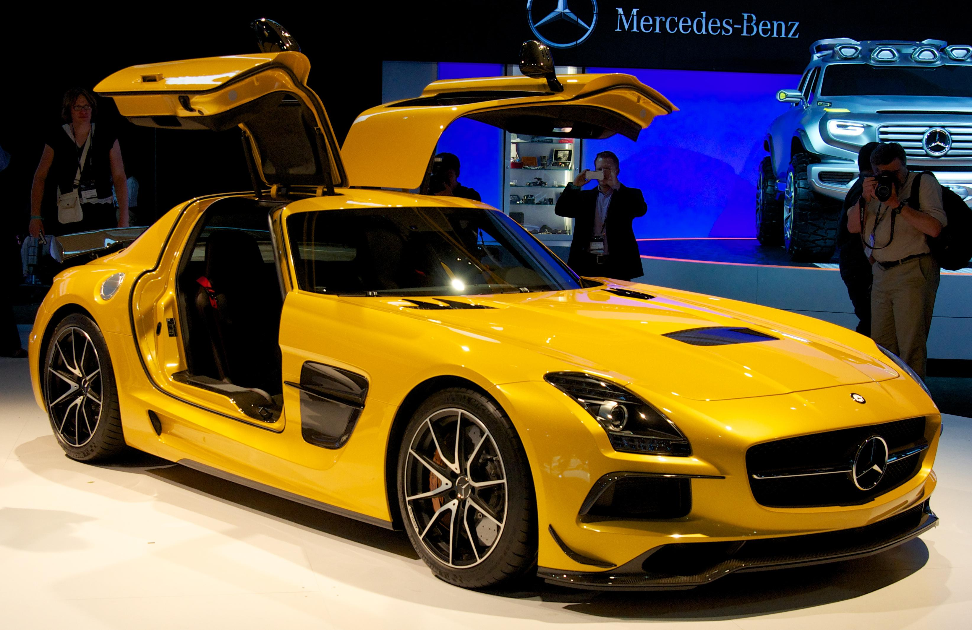 Seen at the 2012 Los Angeles Auto Show. Press day - Wednesday, November 28th. If you use one of my photos, please be so kind as to attribute me and link back to the photo's page. THANK YOU!